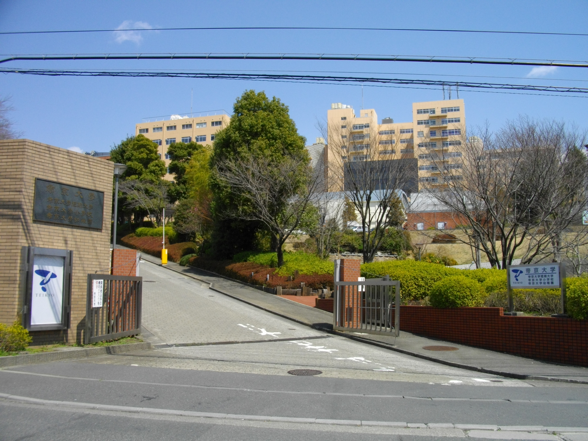 Teikyo University Hachioji Campus